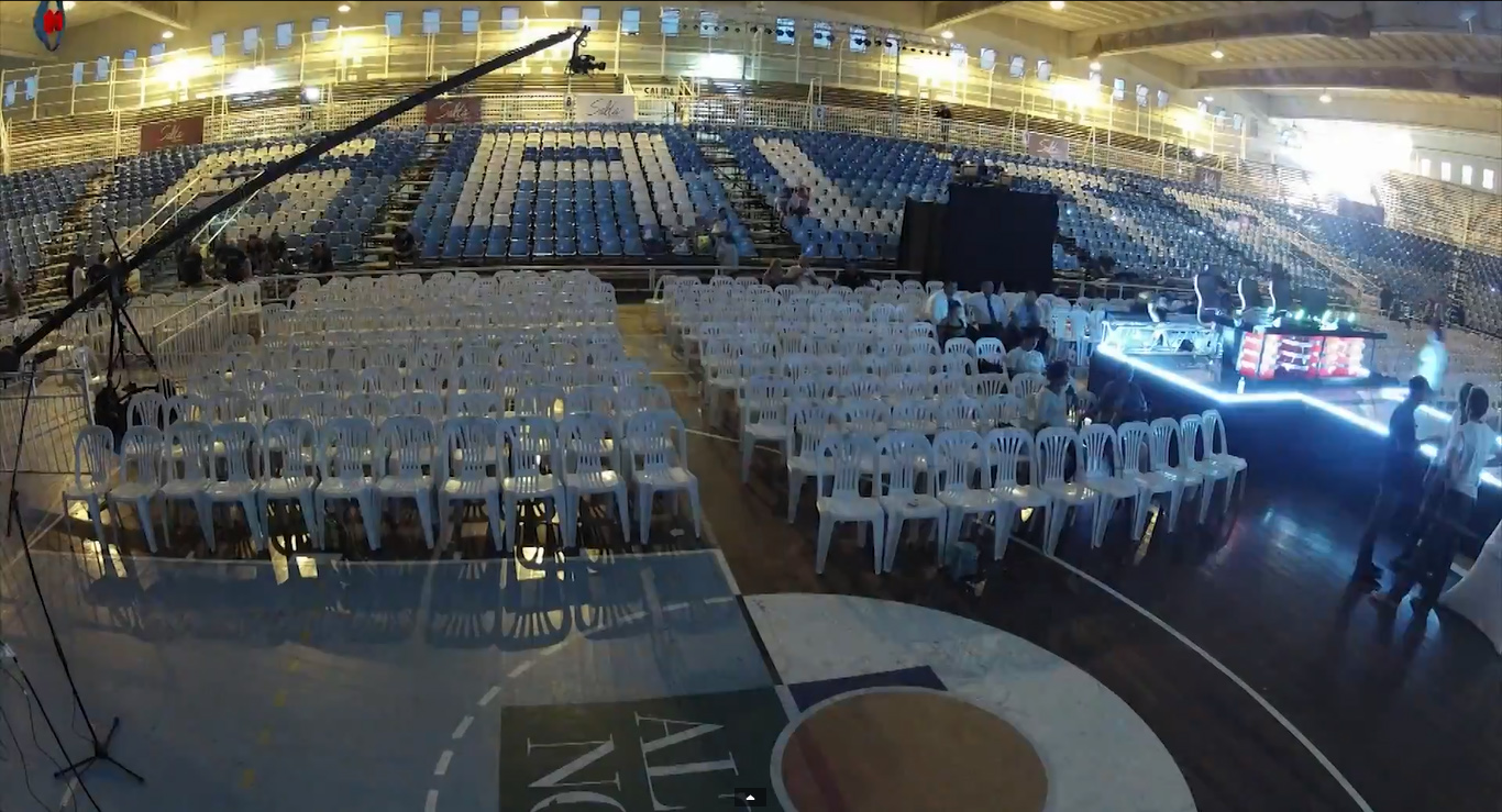 Estadio Delmi, provincia de Salta